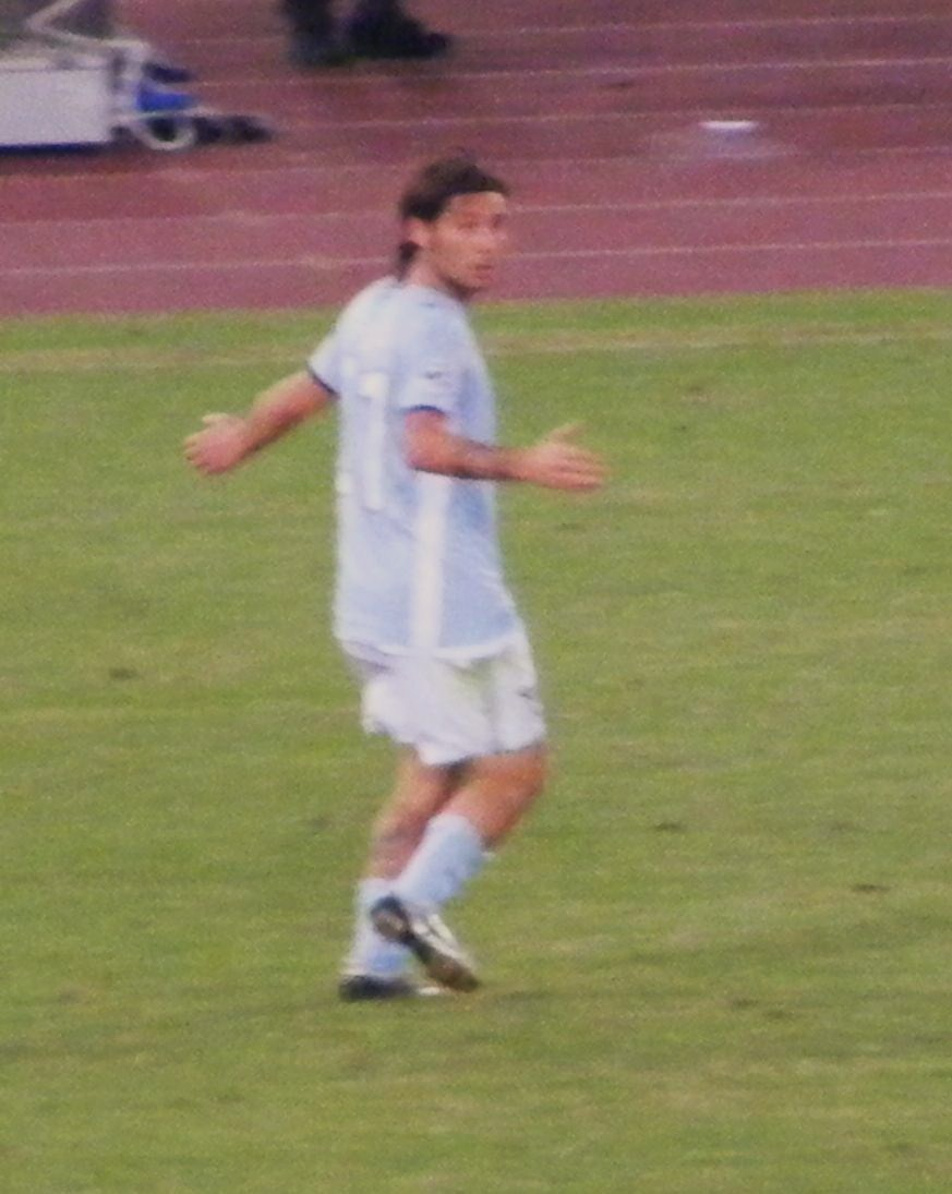 Pasquale Foggia against Fiorentina